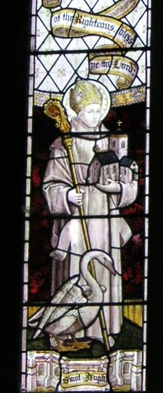 English stained glass